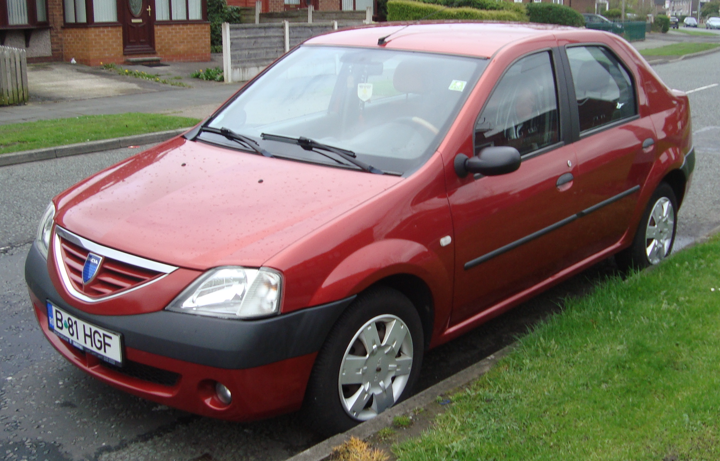 This is only the second Logan I've seen